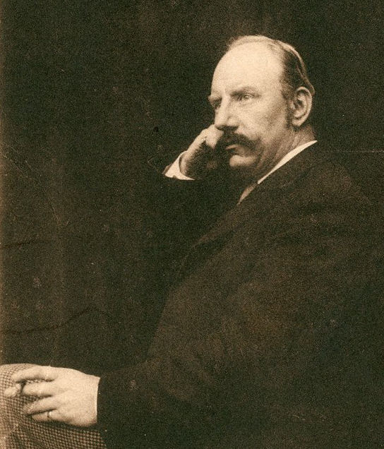 Photograph of Bernard Barham Woodward (1853-1930)